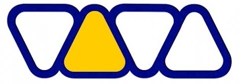 Logo of the television channel VIVA Germany from 1993 to 1998.